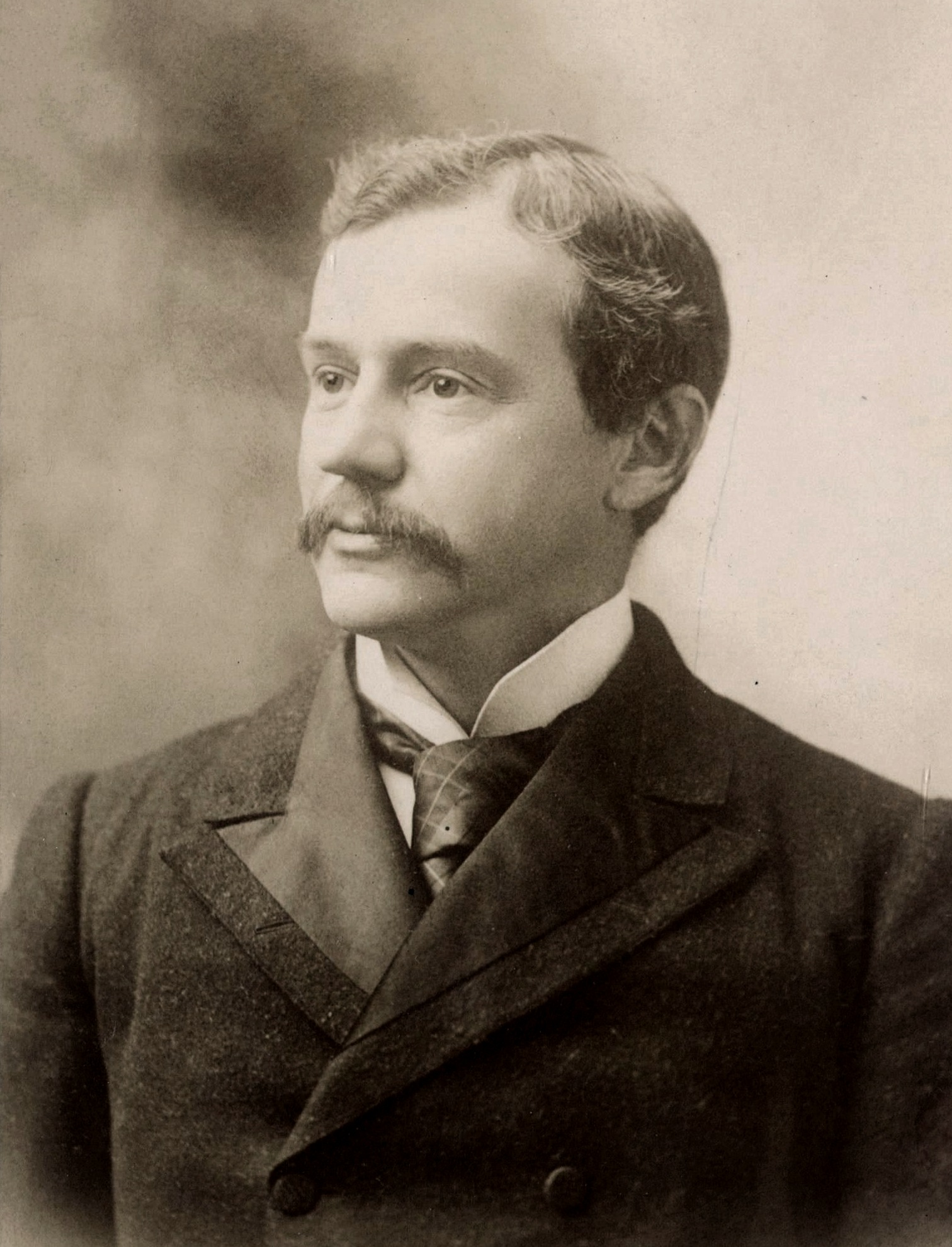 Howard A. (Howard Atwood) Kelly (1858-1943), A.B. 1877, M.D. 1882, LL.D. (hon.) 1907, portrait photograph as a young man